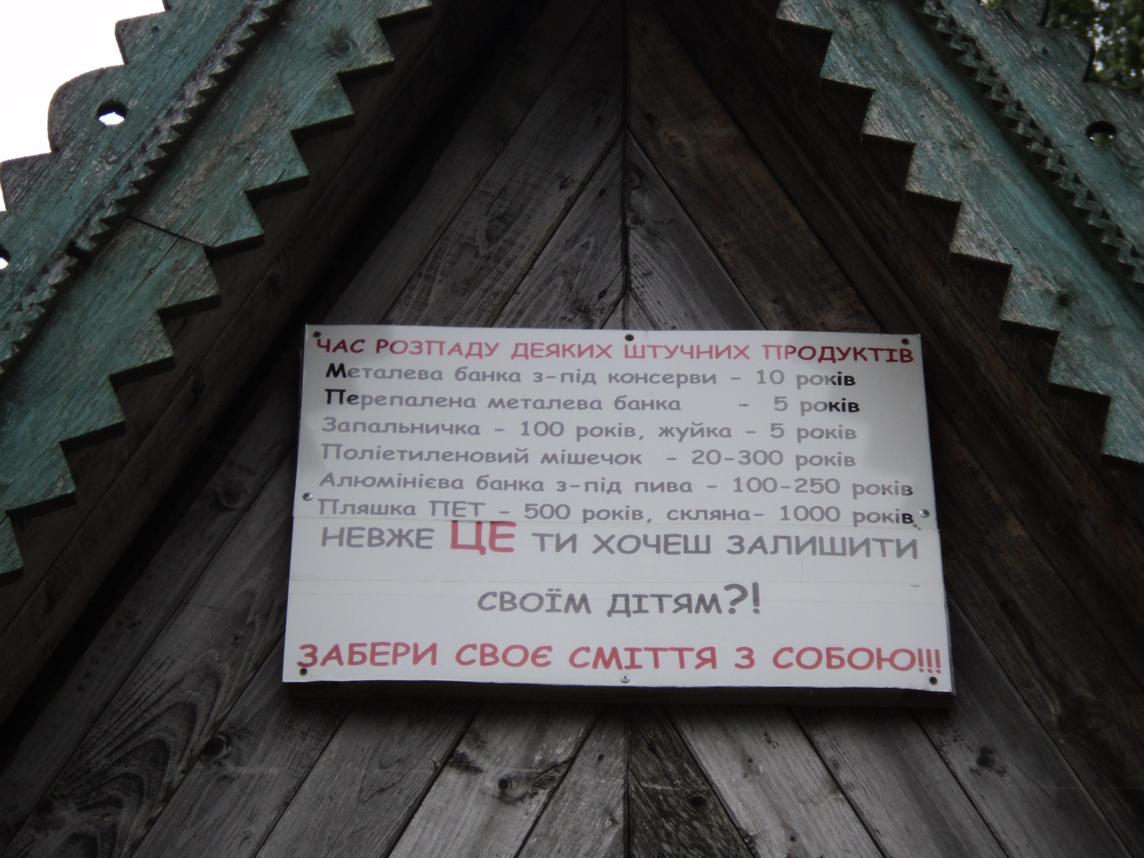 Environmental Information